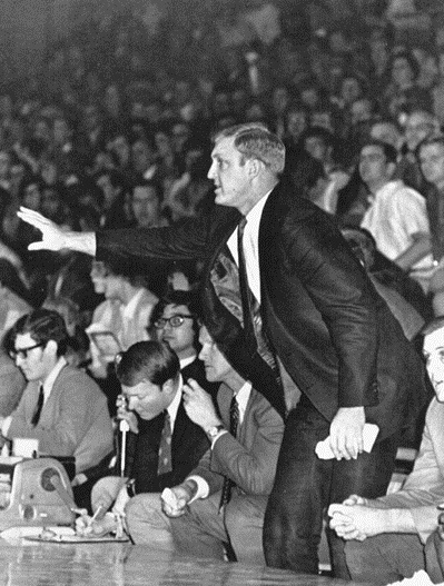 Photograph of Missouri basketball coach Norm Stewart